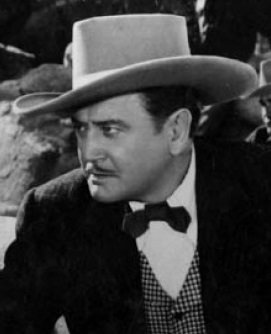 Richard Dix in The Kansan (1943) - cropped screenshot